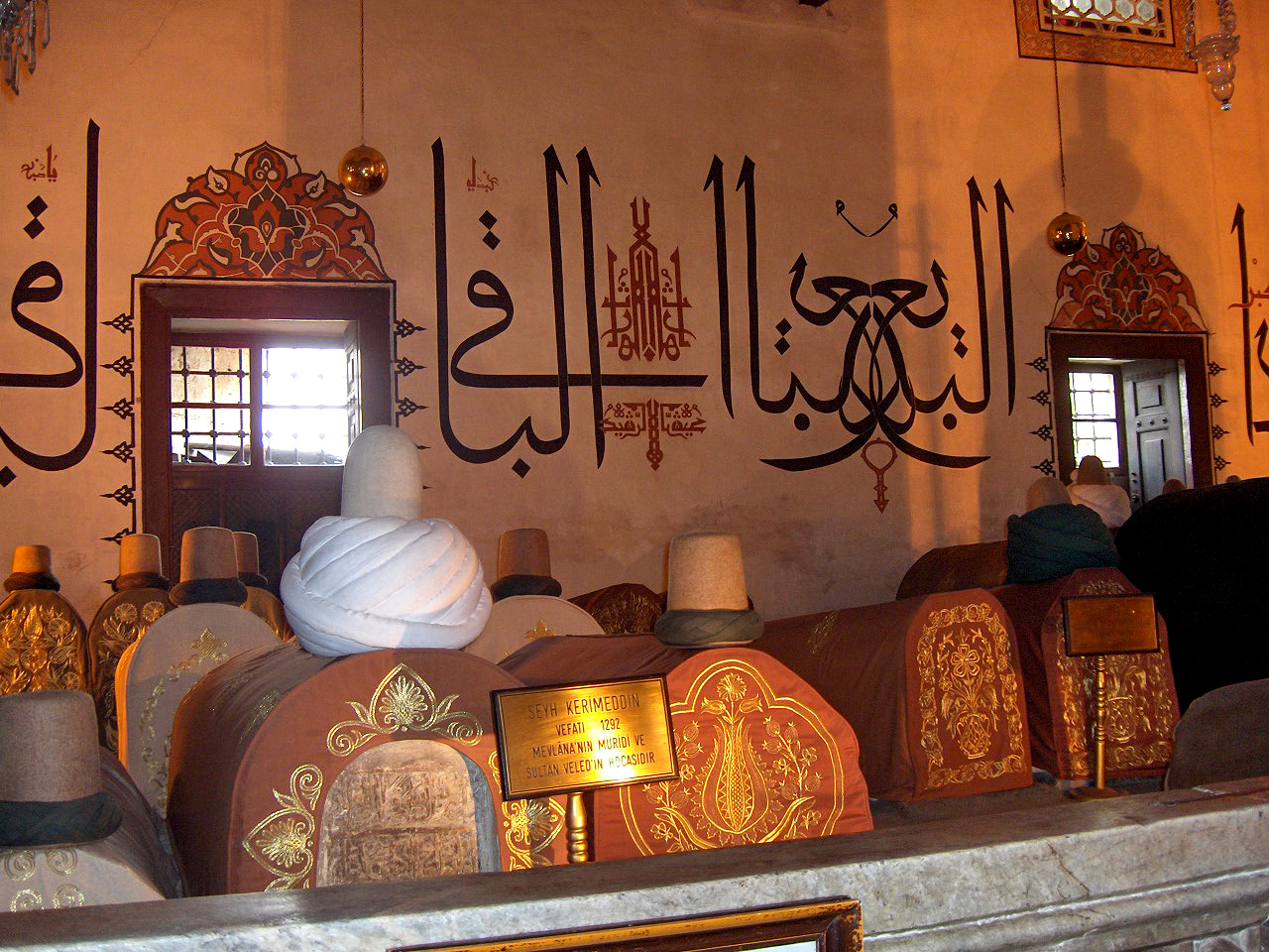 Tomb of Sultan Veled, son of Jalal ad-Din Muhammad Rumi; Mevlâna mausoleum; Konya, Turkey.